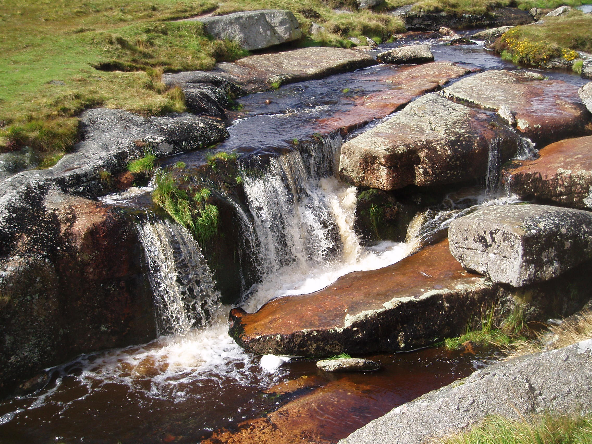 The "waterfall" on the East Dart in Devon. While not significant this point is called "Waterfall" and is a step in the river above the village of Postbridge.